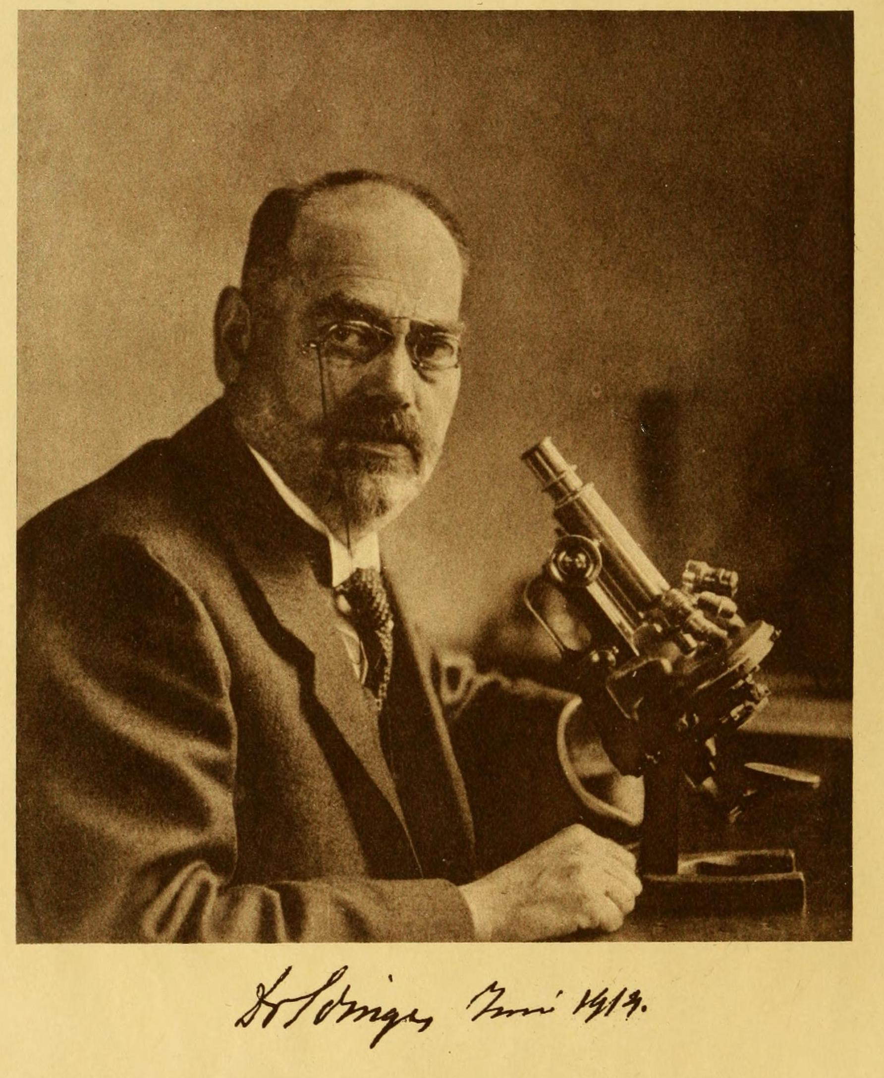 Ludwig Edinger